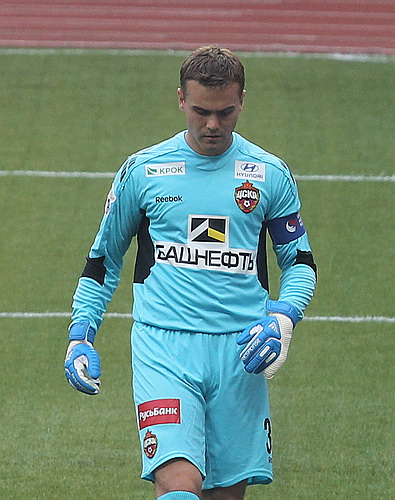 Igor Akinfeev